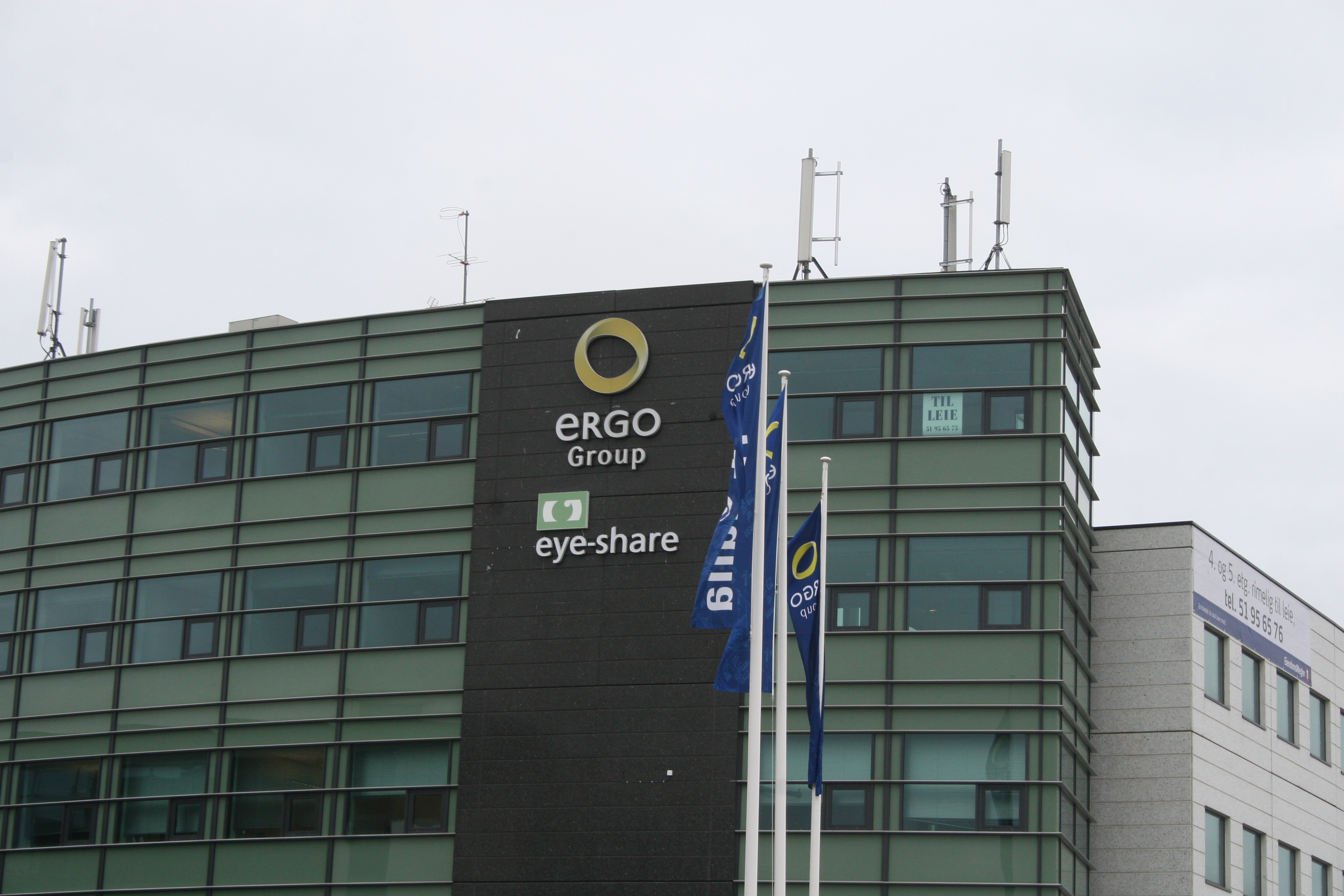 Ergogroups office in Stavanger during IT-galla 2010